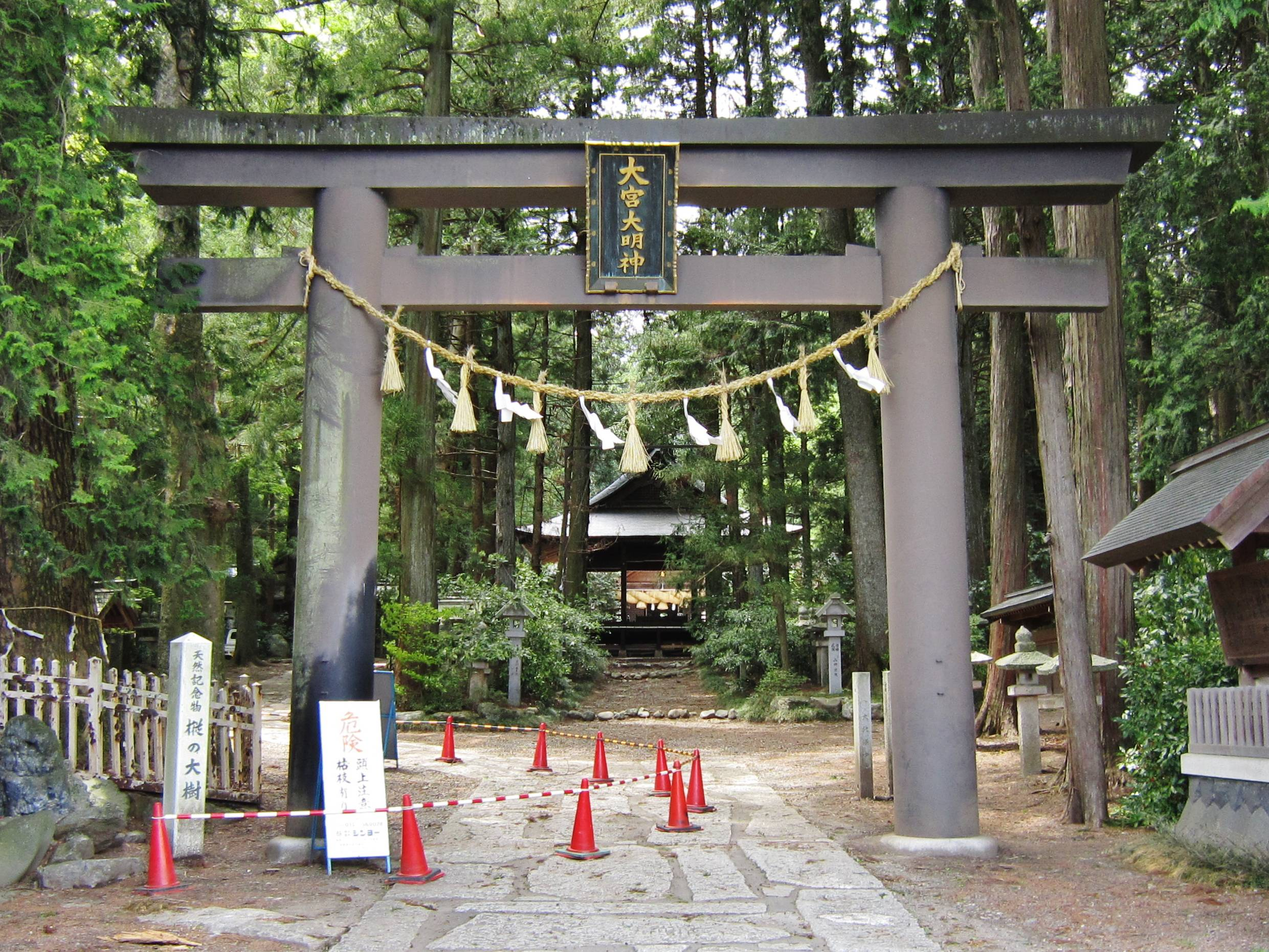 Omiya Atsuta Shrine torii.